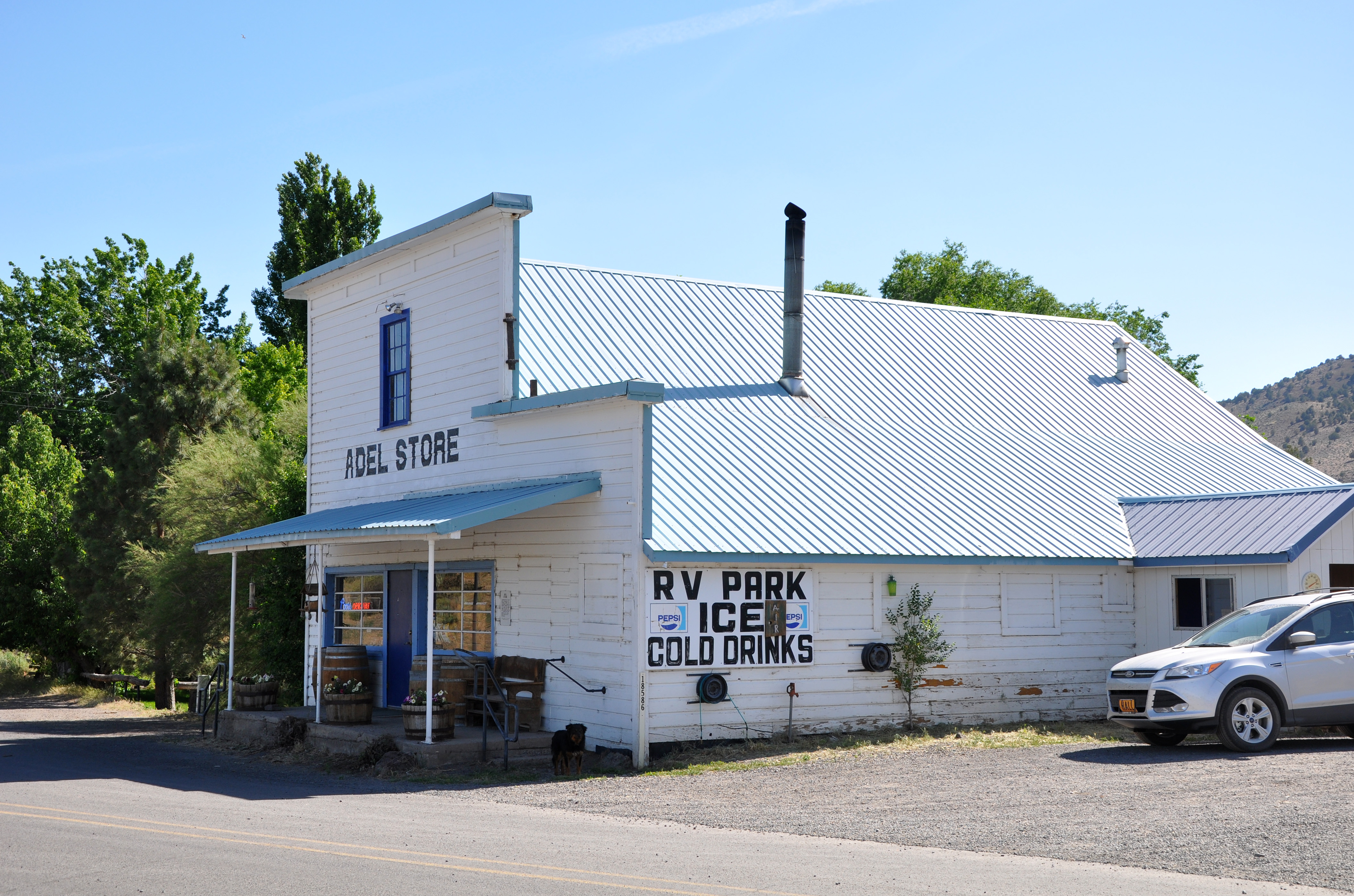 Store in Adel in the U.S. state of Oregon. Adel is in the Warner Valley, a closed basin in the semi-arid terrain of south-central Lake County.